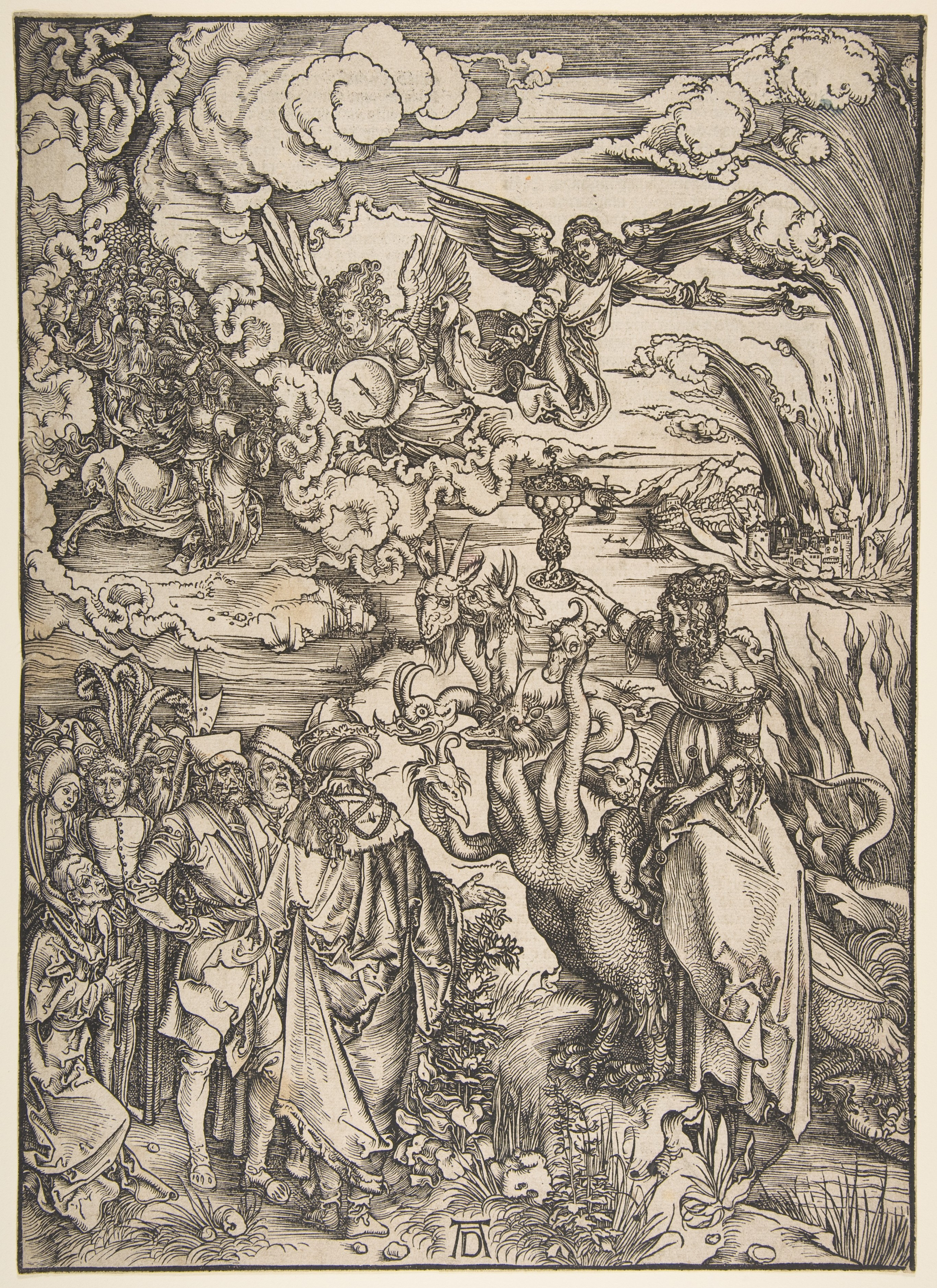 Print; Prints